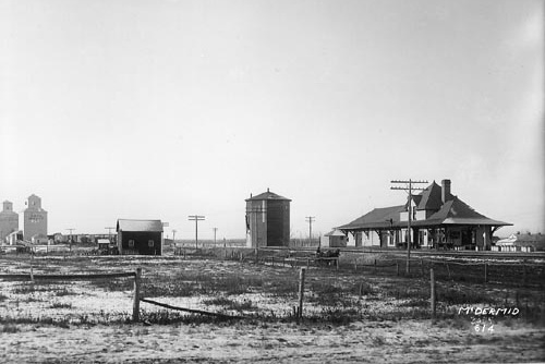 Fort Saskatchewan's CNR station in 1913, two years after it was expanded